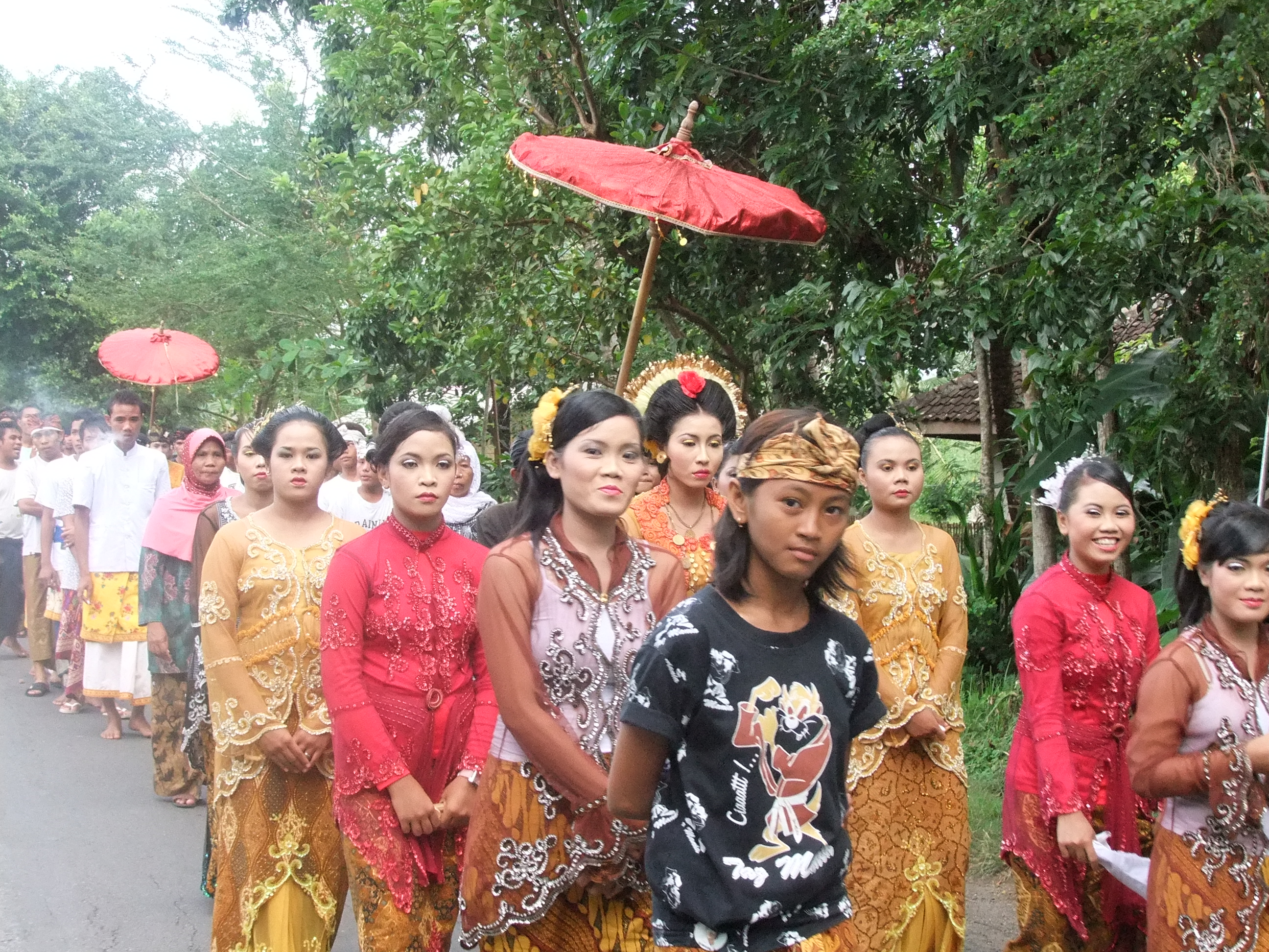 Bride procession in Central Lombok accompanied by traditional live music Gendang Beleq.